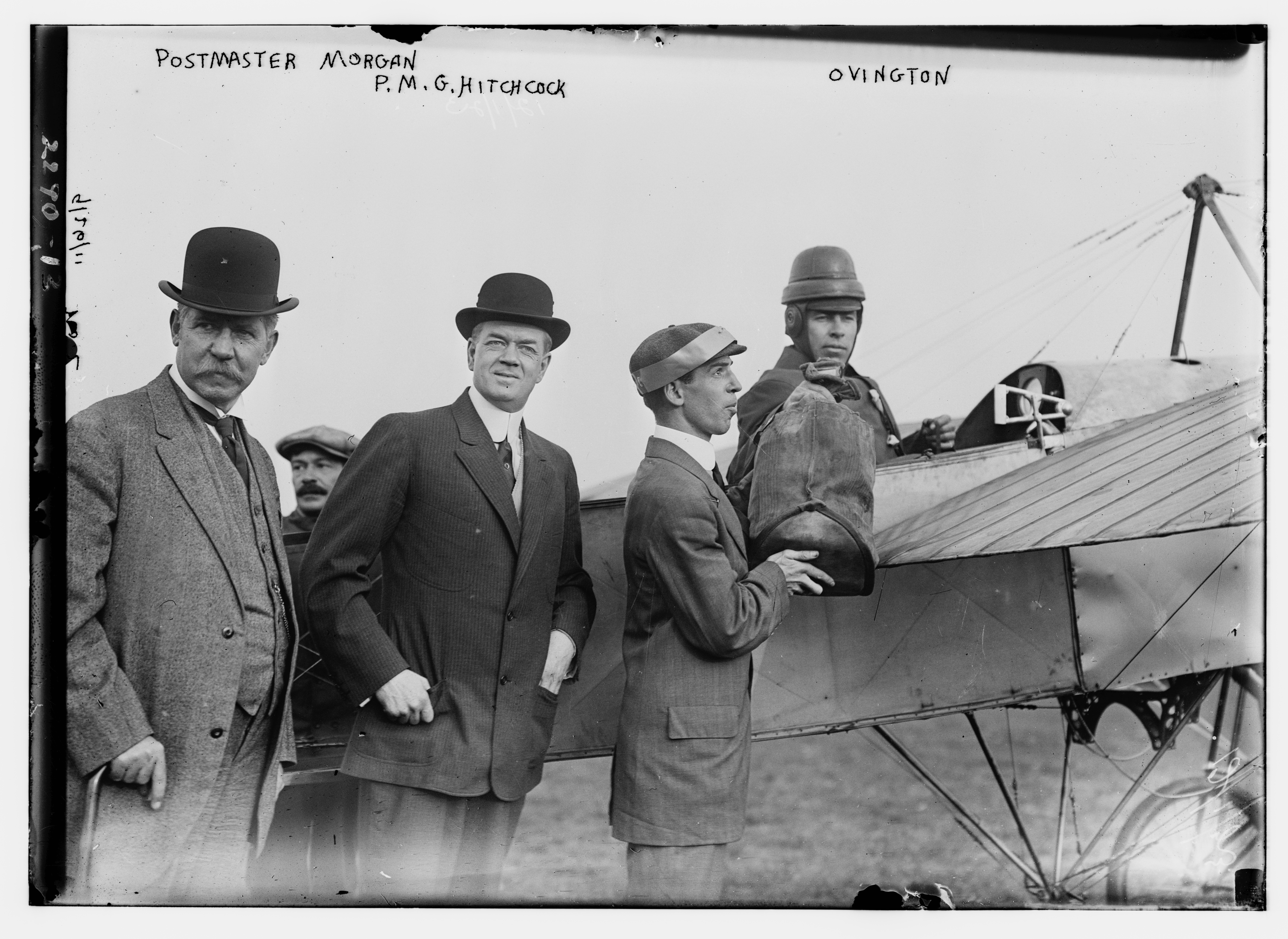 Bain News Service,, publisher. Postmaster Edward M. Morgan, Frank Harris Hitchcock, & Earle Lewis Ovington [between 1910 and 1915] 1 negative : glass ; 5 x 7 in. or smaller. Notes: Title from unverified data provided by the Bain News Service on the negatives or caption cards. Forms part of: George Grantham Bain Collection (Library of Congress). Format: Glass negatives. Repository: Library of Congress, Prints and Photographs Division, Washington, D.C. 20540 USA, General information about the Bain Collection is available at Persistent URL: Call Number: LC-B2- 2290-13